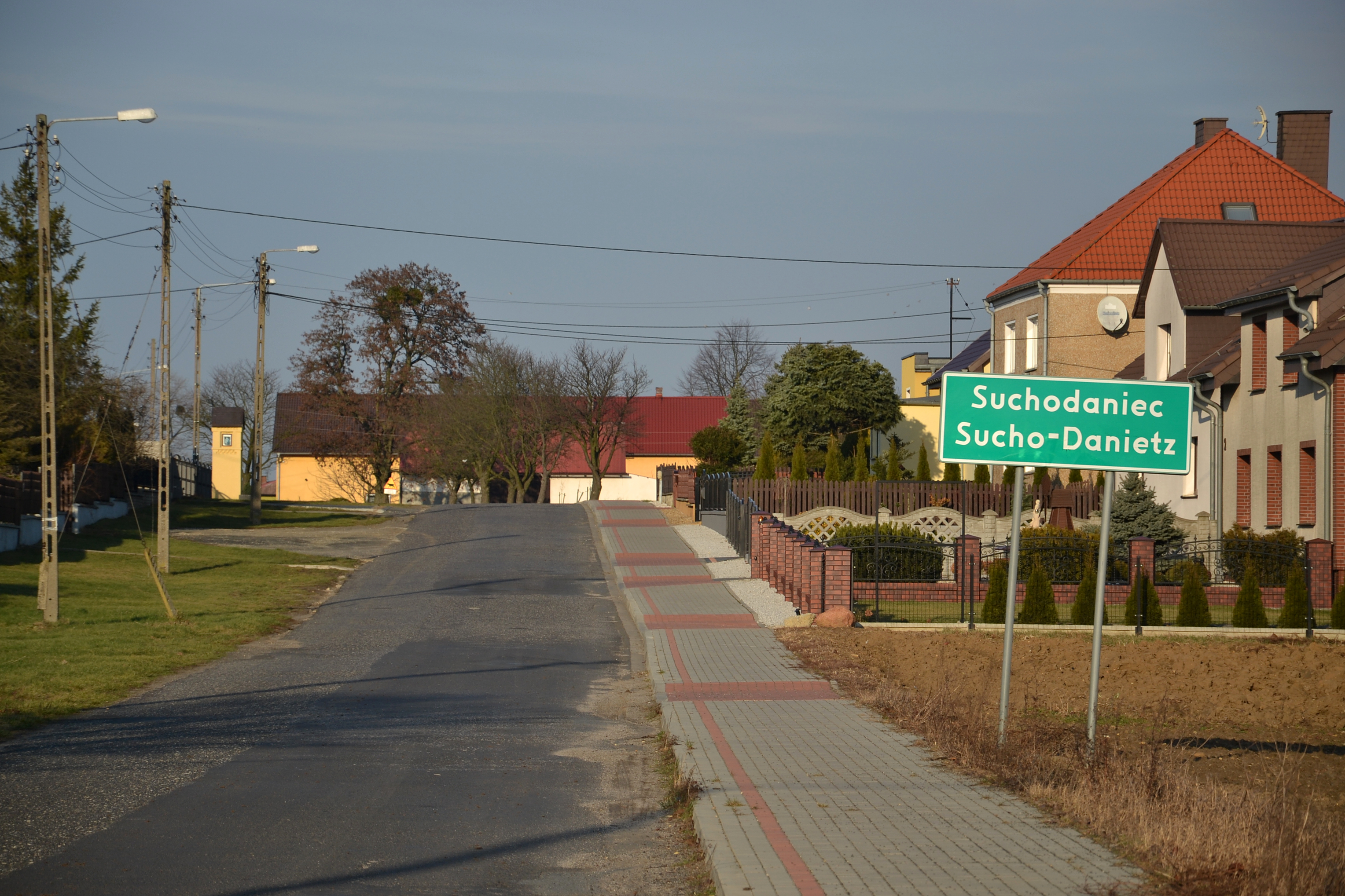 Suchodaniec/Sucho-Danietz (from 1934 Trockenfeld) - Polish-German city limit sign